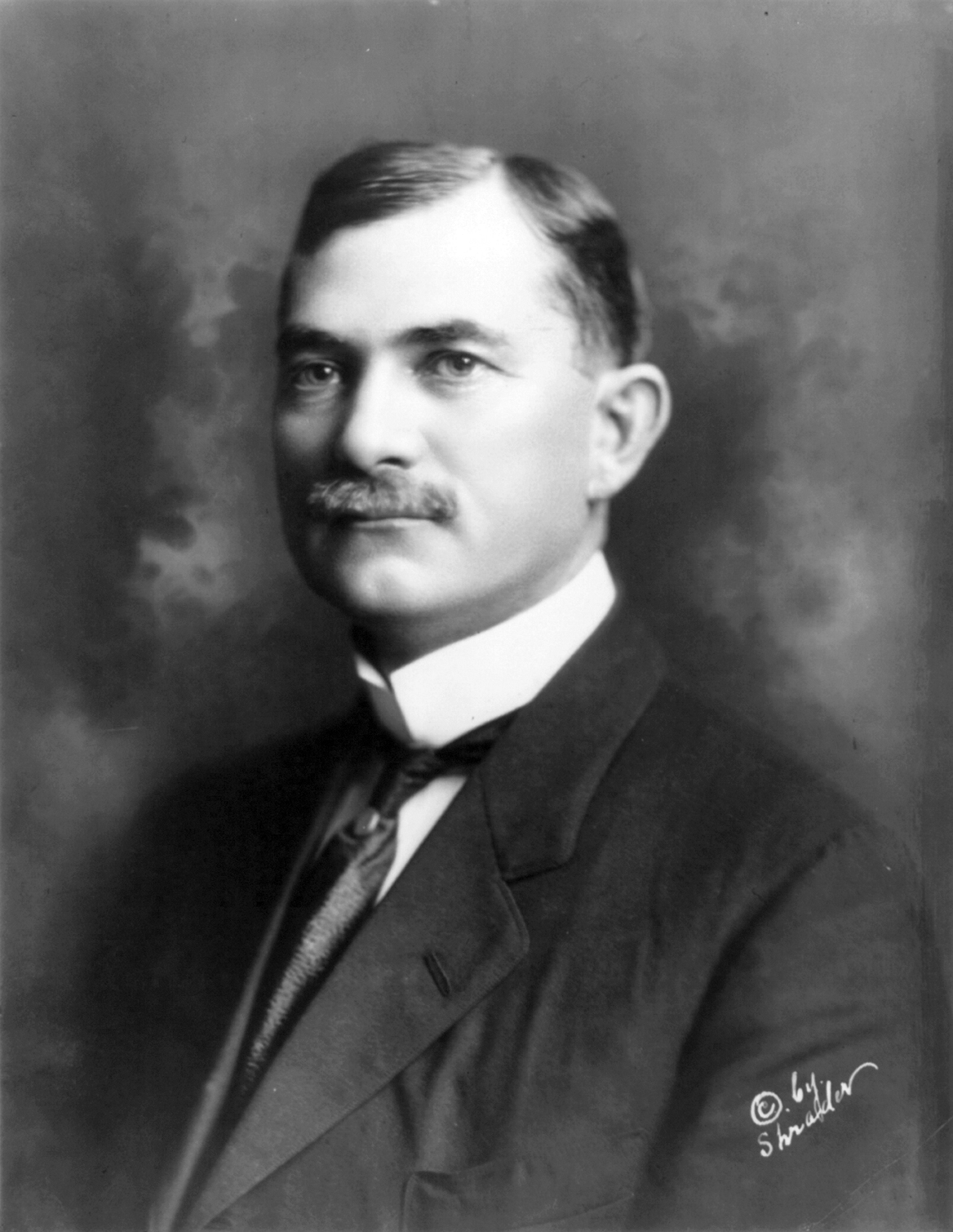 William F. Kirby, United States Senator from Arkansas